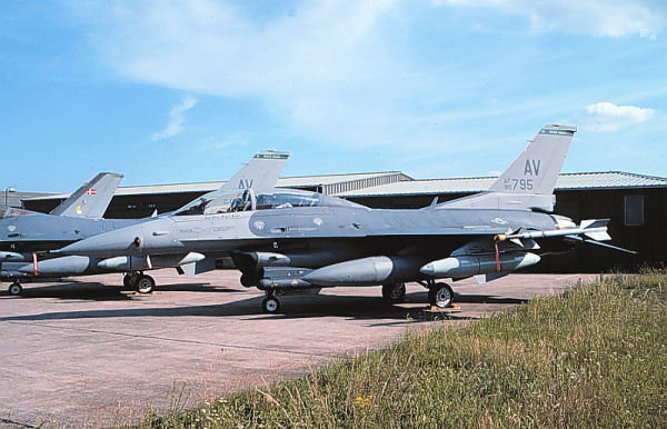 F-16s of the 31st Fighter Wing, Aviano Air Base, Italy